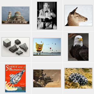 This is neutral example of thumbnails and this is rather than using screenshots of specific software as main illustration for article about thumbnails. To create this image I used pictures from “Today's featured picture” project of Russian Wikipedia.